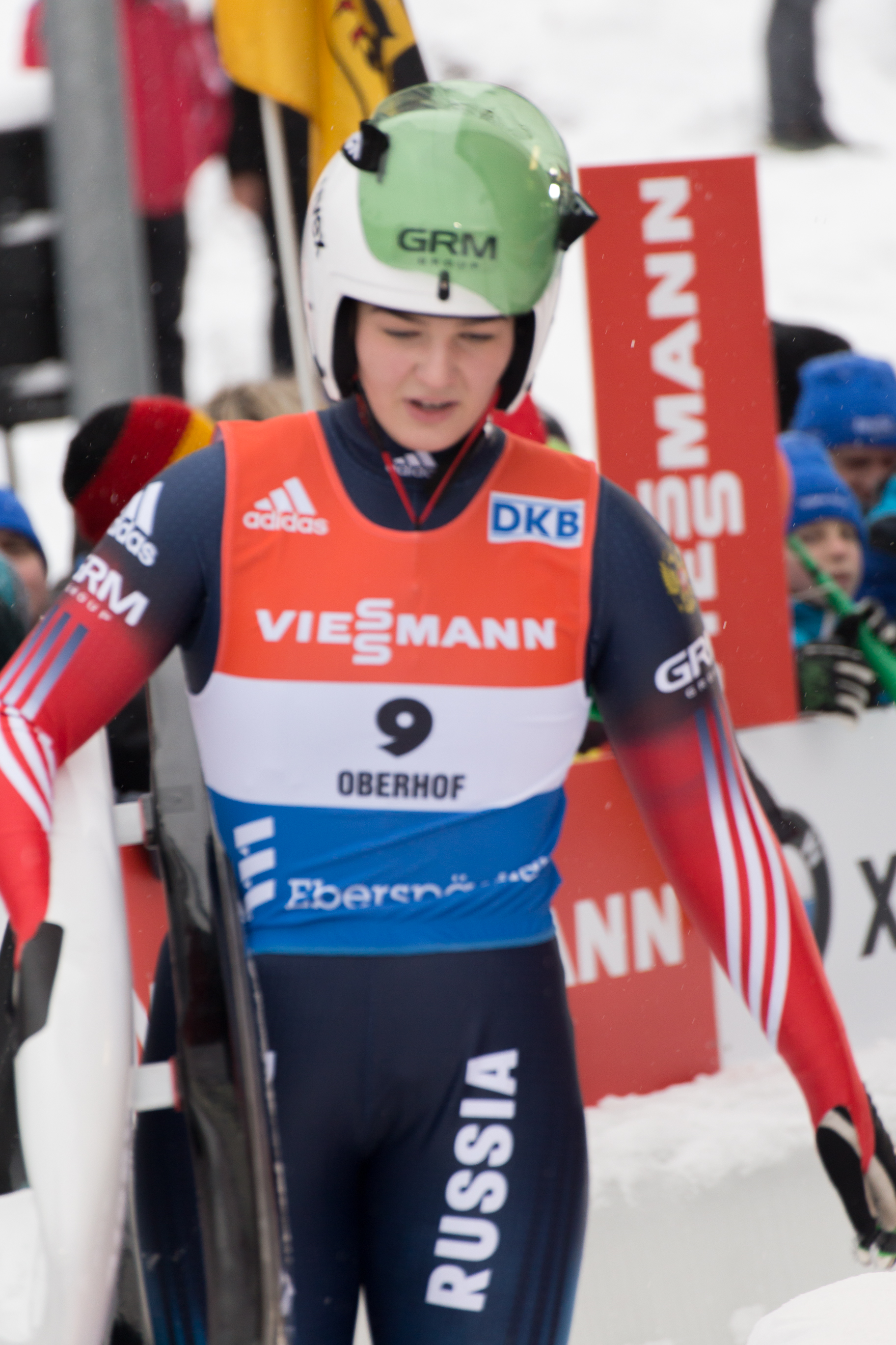 Luge world cup Oberhof 2016-01-16